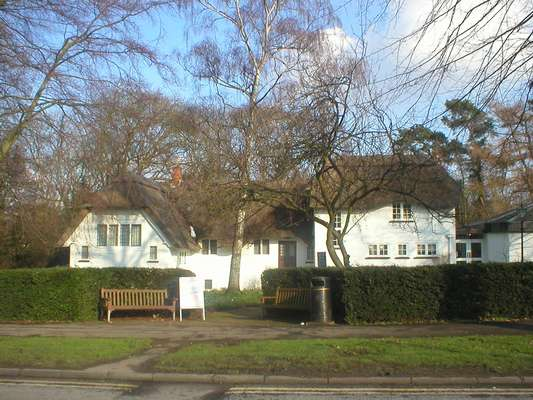 Letchworth Heritage Museum